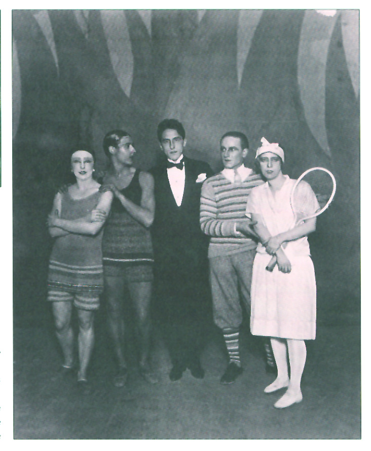 Jean Cocteau (center) with the cast and choreographer of the ballet Le Train Bleu, 1924